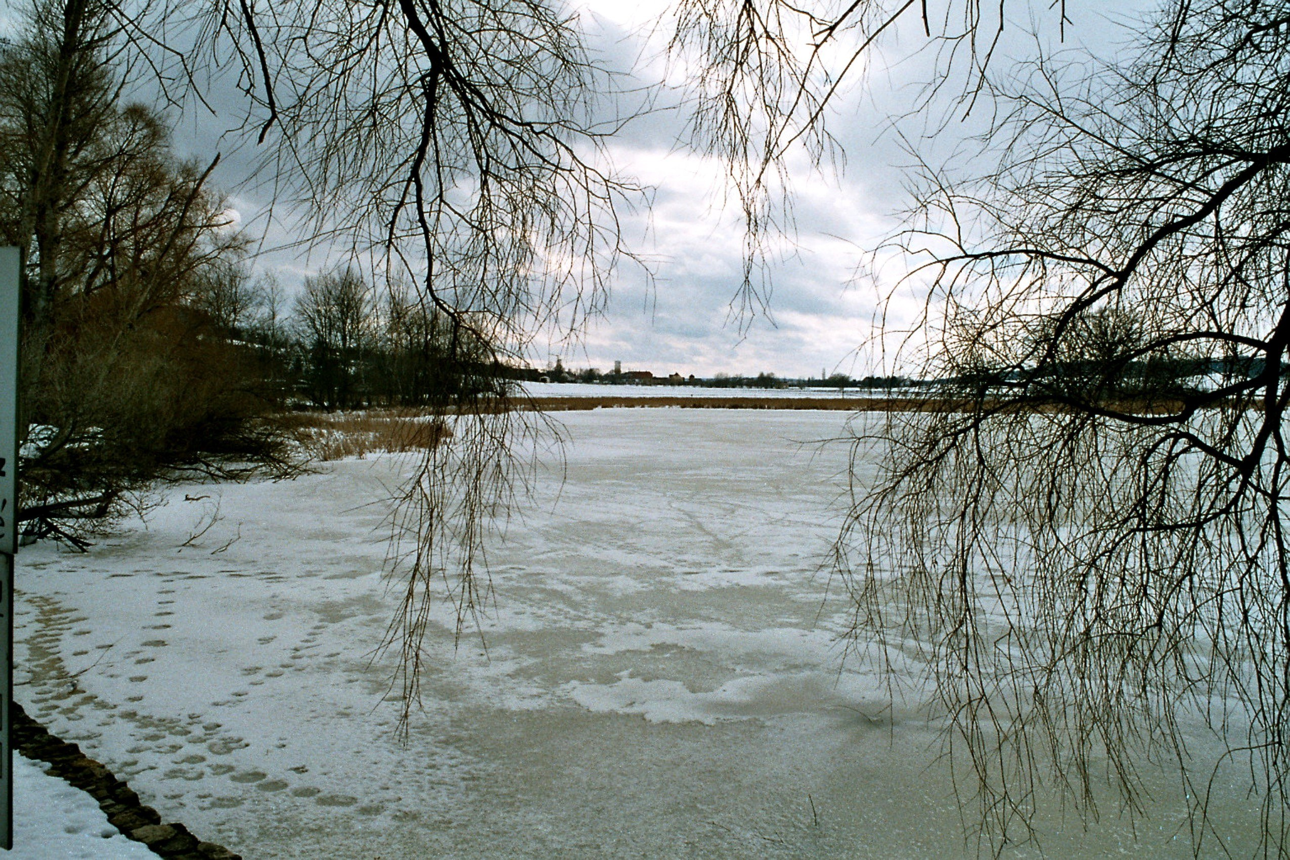 The Hainspitz lake in the winter